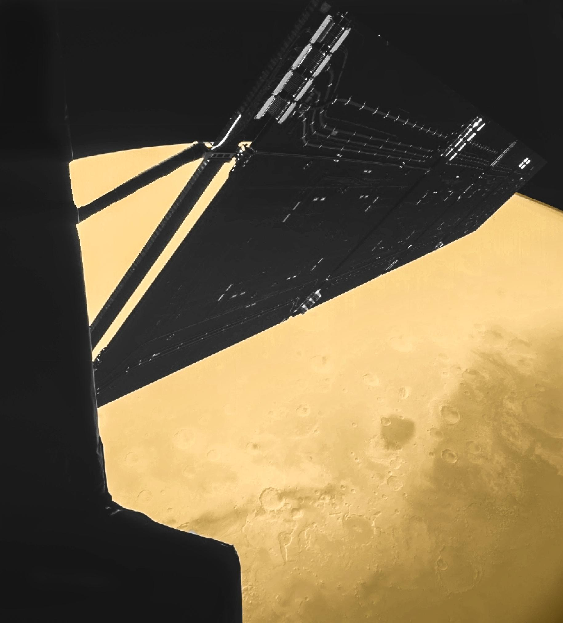 On 25 February 2007 at 02:15 GMT, Rosetta passed just 250 km from the surface of Mars. Rosetta’s Philae lander took this image 4 minutes before closest approach, at a distance of 1000 km. It captures one of Rosetta’s 14 m-long solar wings, set against the northern hemisphere of Mars, where details in the Mawrth Vallis region can be seen. Mawrth Vallis is of particular interest to scientists because it contains minerals formed in the presence of water – a discovery made by ESA’s Mars Express. This image was originally published in 2007 and was taken in black-and-white. Representative colour was added to the surface of Mars and, in this version, these colours have been slightly enhanced, along with some brightening of details in the solar wing. On Sunday 2 March, Rosetta celebrates ten years since launch. The flyby at Mars was one of four planetary gravity assists (the other three were at Earth) needed to boost the spacecraft onto the correct trajectory to meet up with its target, comet 67P/Churyumov–Gerasimenko, in August 2014. Rosetta will become the first space mission to rendezvous with a comet, the first to attempt a landing, and the first to follow a comet as it swings around the Sun.